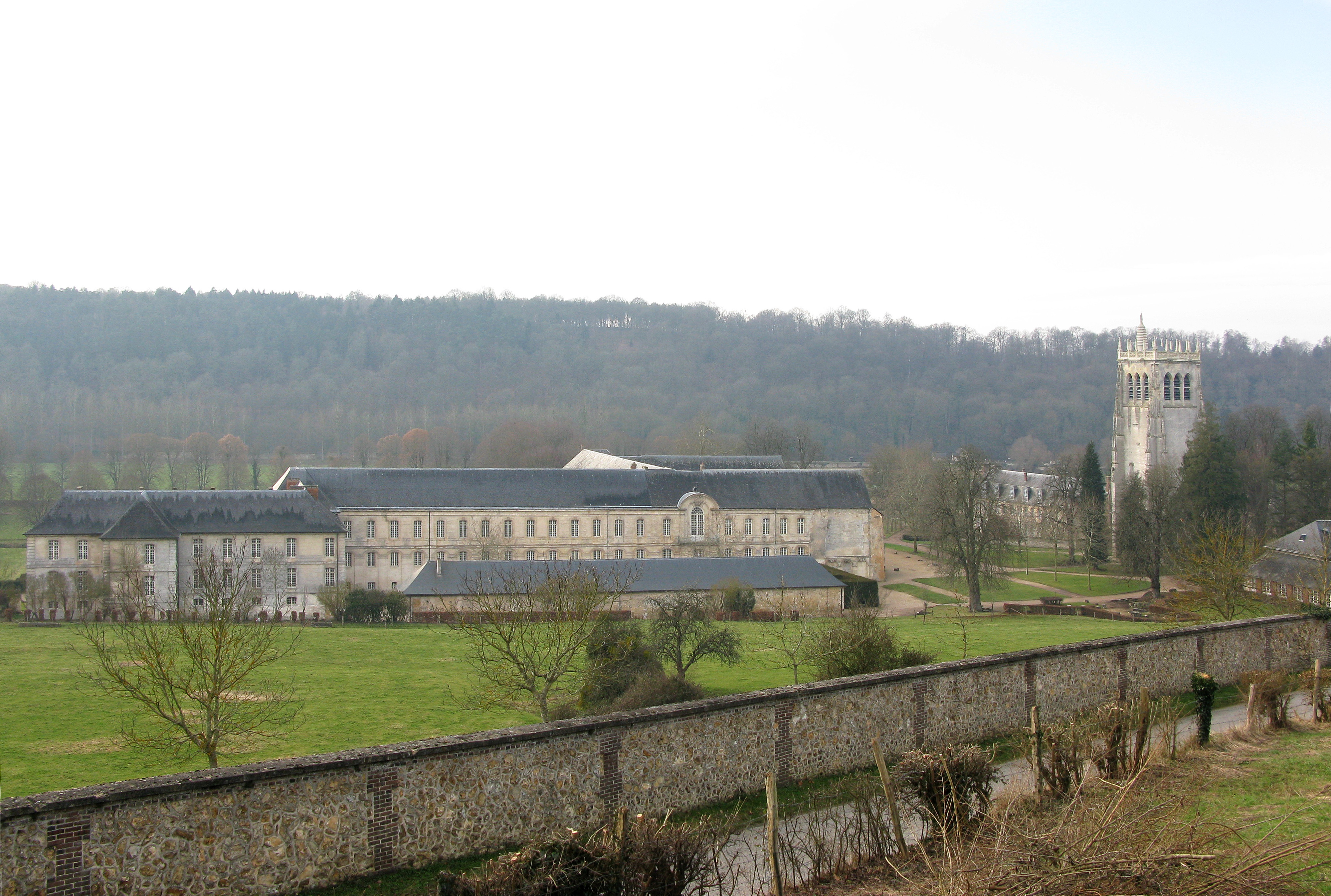 General view of the abbey after restoration of Saint-Nicolas tower. East side.